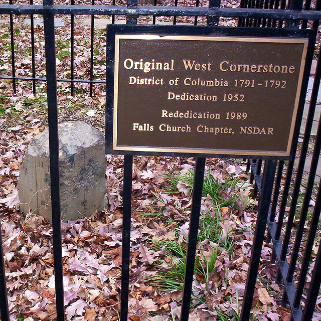 DC West Boundary Stone, that is the boundary marker furthest west in the original District of Columbia, now in northern Virginia. The stone was placed in 1791-1792 by Andrew Ellicott and Benjamin Banneker. See for a map of these stones.